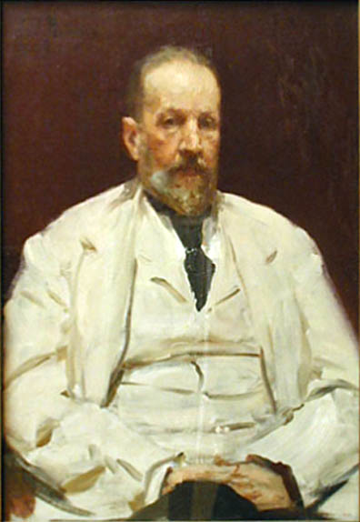 Study for the picture Formal Session of the State Council.